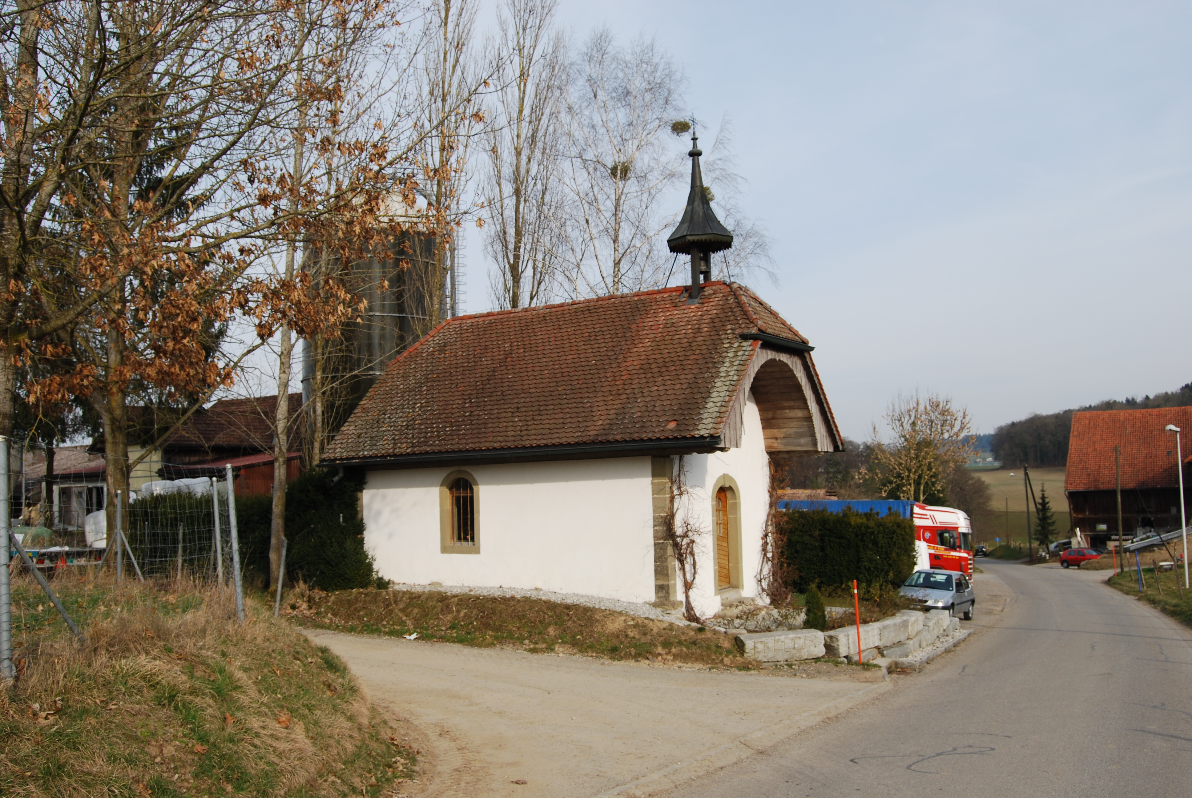 Chapel of Saint-Udalric at Chésopelloz, canton of Fribourg, Switzerland